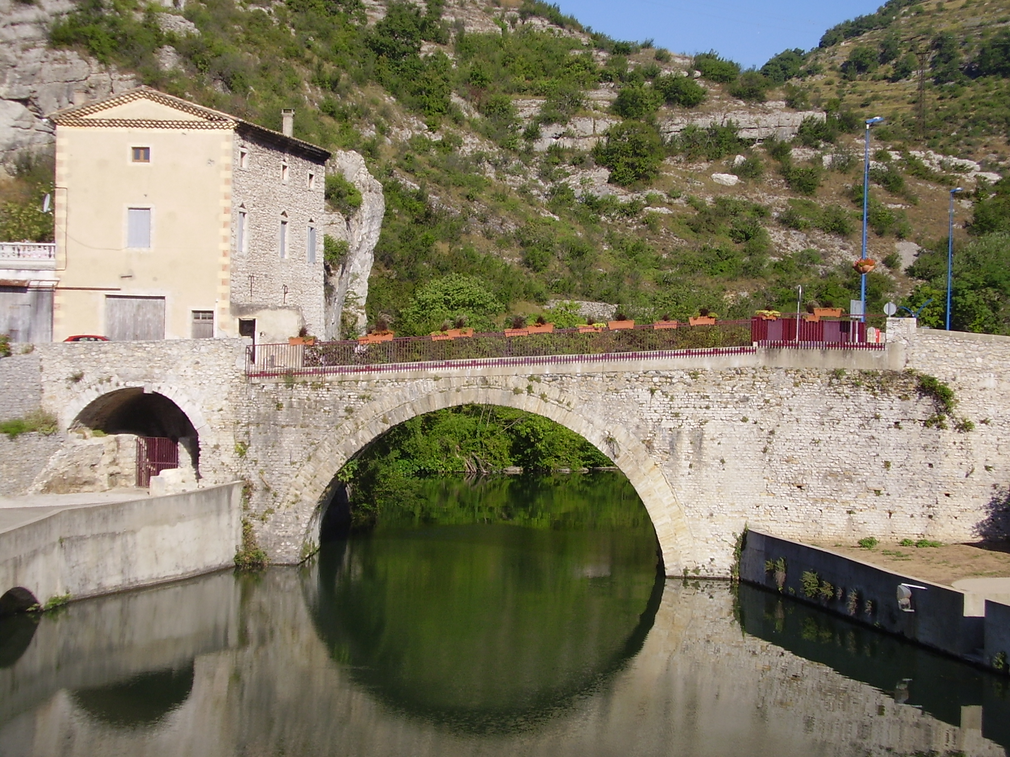 Roman bridge on the river Ouvèze at Le Pouzin